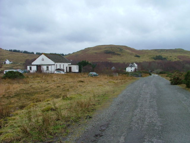 Skeabost Community Hall. Serving the small community of Skeabost and surrounding townships.